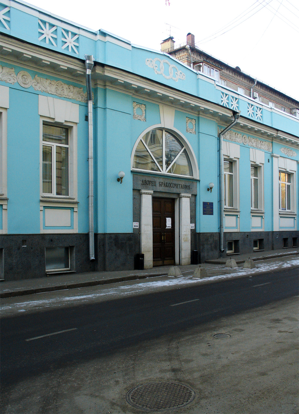 Maly Kharitonyevsky Lane, Moscow